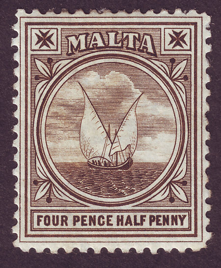 Malta postage stamp, 1899 issue, fishing boat